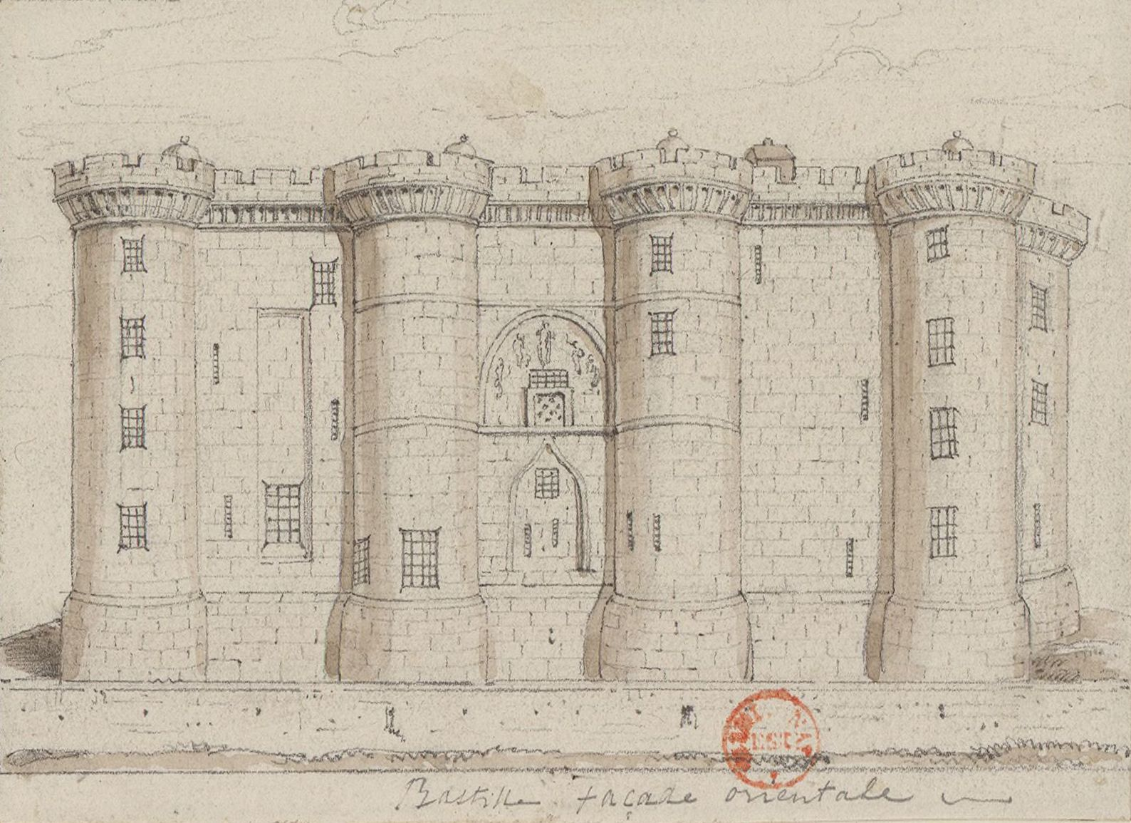 Bastille, eastern façade, drawing of 1790 or 1791.